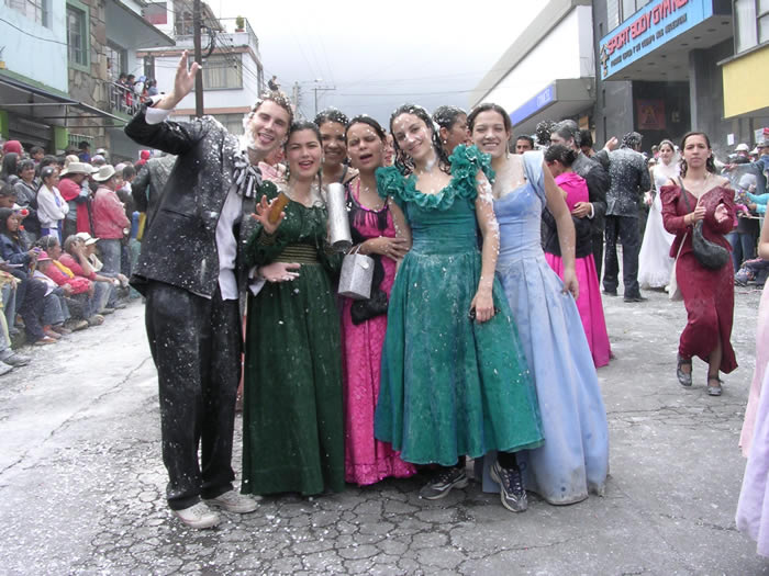 Castañeda Family's Parade 2006. Blacks and Whites Pasto Carnival